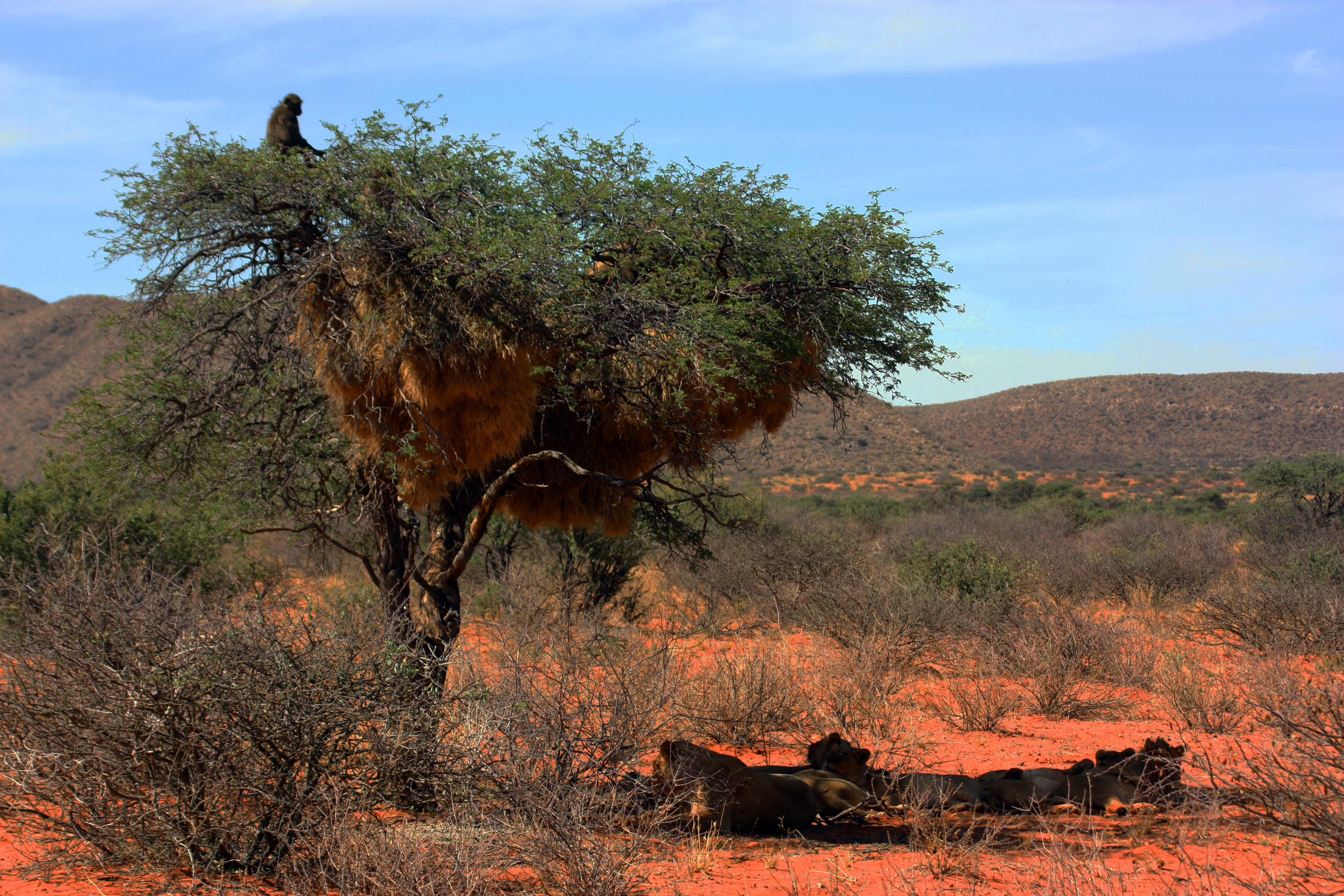 Lions, Black-maned lions with baboons trapped up a tree in the Kalahari desert, South Africa 1 of 3